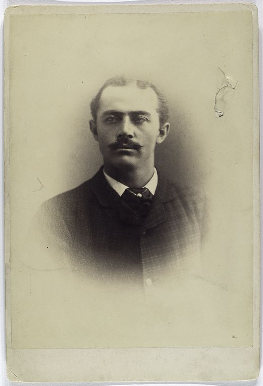 Joe Hornung, Buffalo Bisons, circa 1885